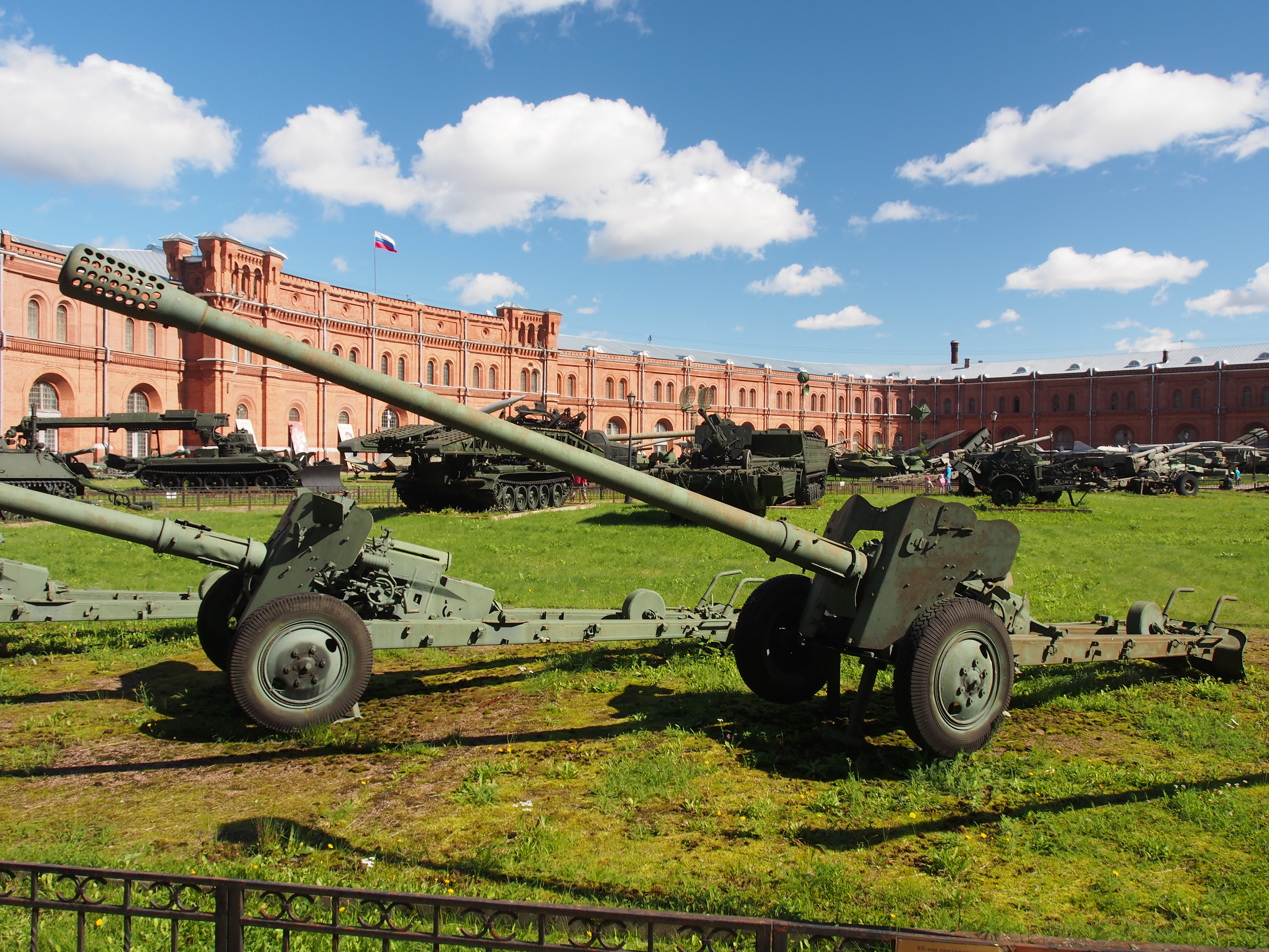 Photographed at the Military-historical Museum of Artillery, Engineer and Signal Corps, Saint Petersburg.